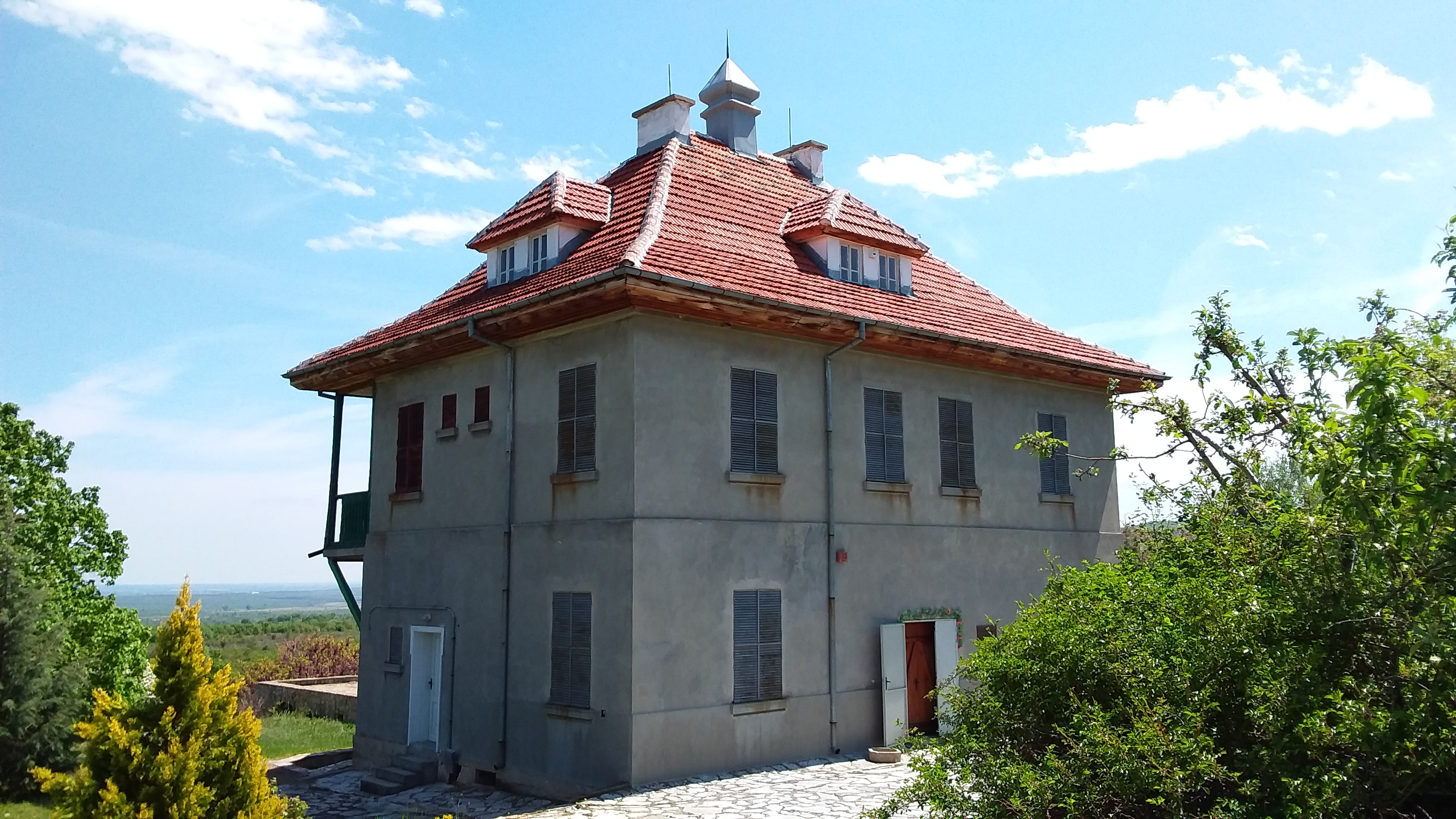 Aleksandar Stamboliyski museum, Slavovitsa, Bulgaria